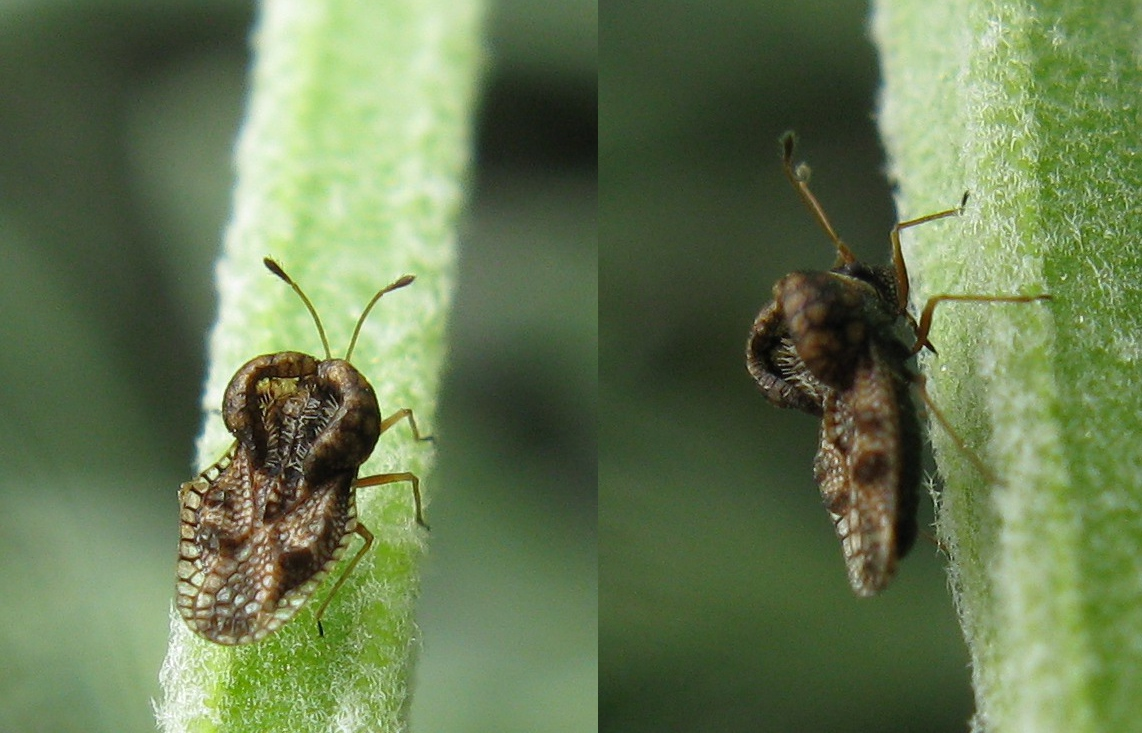 Cochlochila, probable species Cochlochila austroafricana Lace bug, about 2 mm (0.079 in) long found feeding on stem of inflorescence of Lavandula. Location: Somerset West, South Africa.